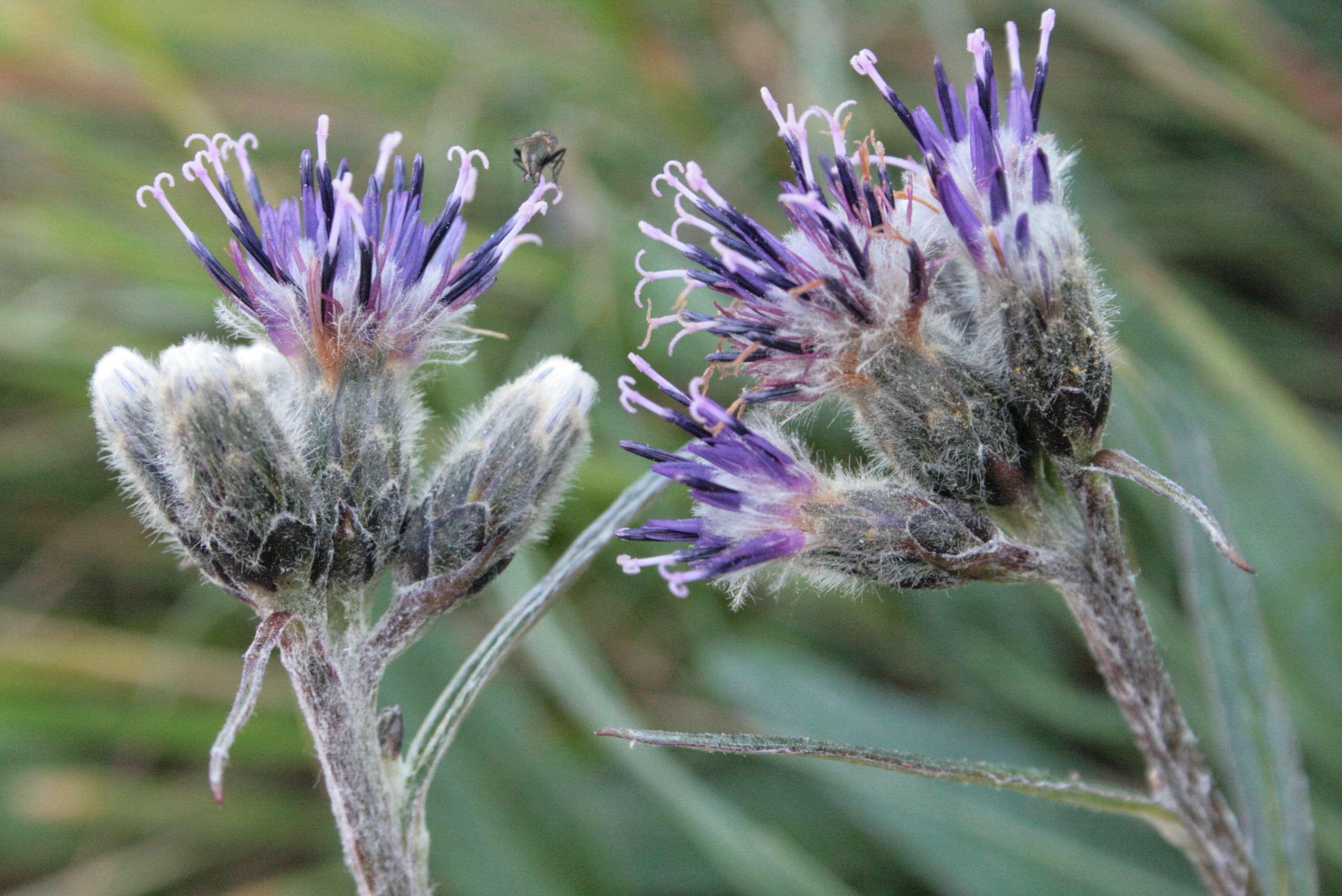 Saussurea alpina